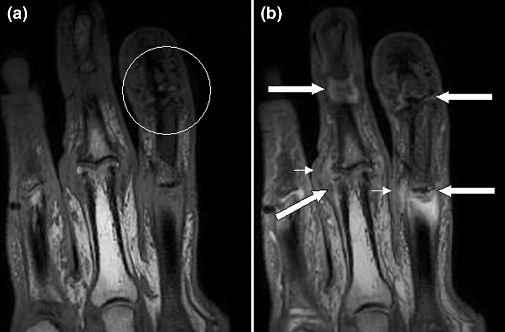 Magnetic resonance images of fingers: psoriatic arthritis. Shown are T1-weighted (a) precontrast and (b) postcontrast coronal magnetic resonance images of the fingers in a patient with psoriatic arthritis. Enhancement of the synovial membrane at the third and fourth proximal interphalangeal (PIP) and distal interphalangeal (DIP) joints is seen, indicating active synovitis (large arrows). There is joint space narrowing with bone proliferation at the third PIP joint and erosions are present at the fourth DIP joint (white circle). Extracapsular enhancement (small arrows) is seen medial to the third and fourth PIP joints, indicating probable enthesitis. Note that this particular slice does not allow optimal visualization of all of the mentioned pathologies.